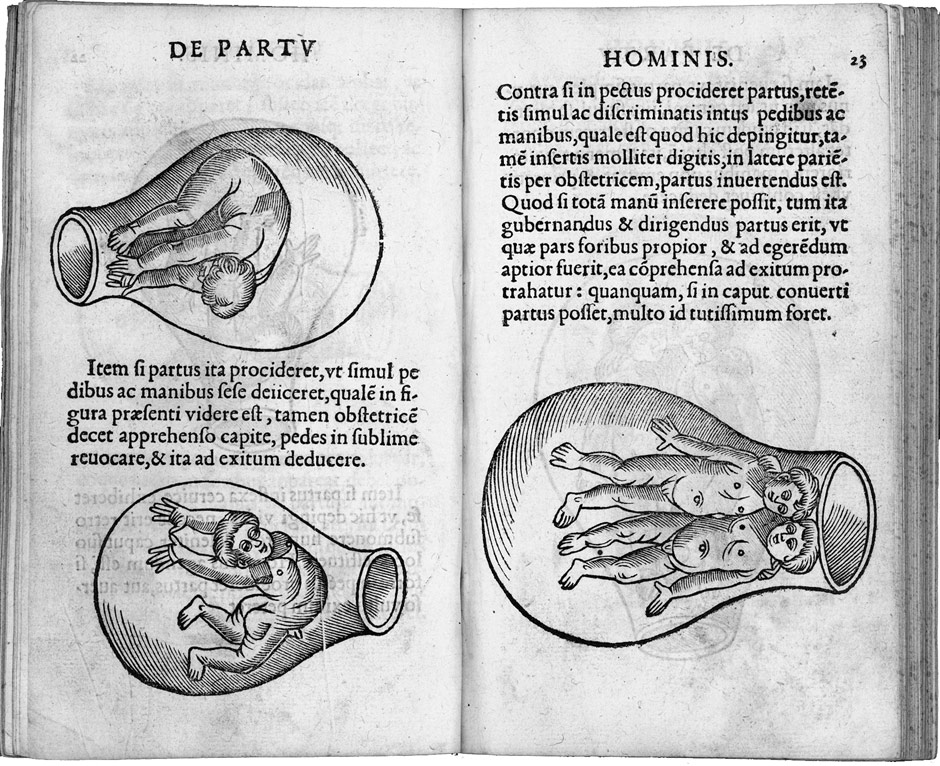 Pages from Eucharius Rösslin: De partu hominis, c. 1532